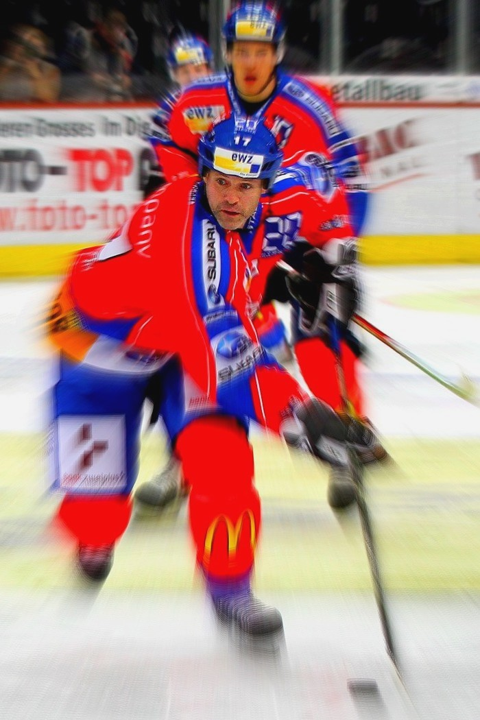 Owen Nolan playing for Swiss club ZSC Lions